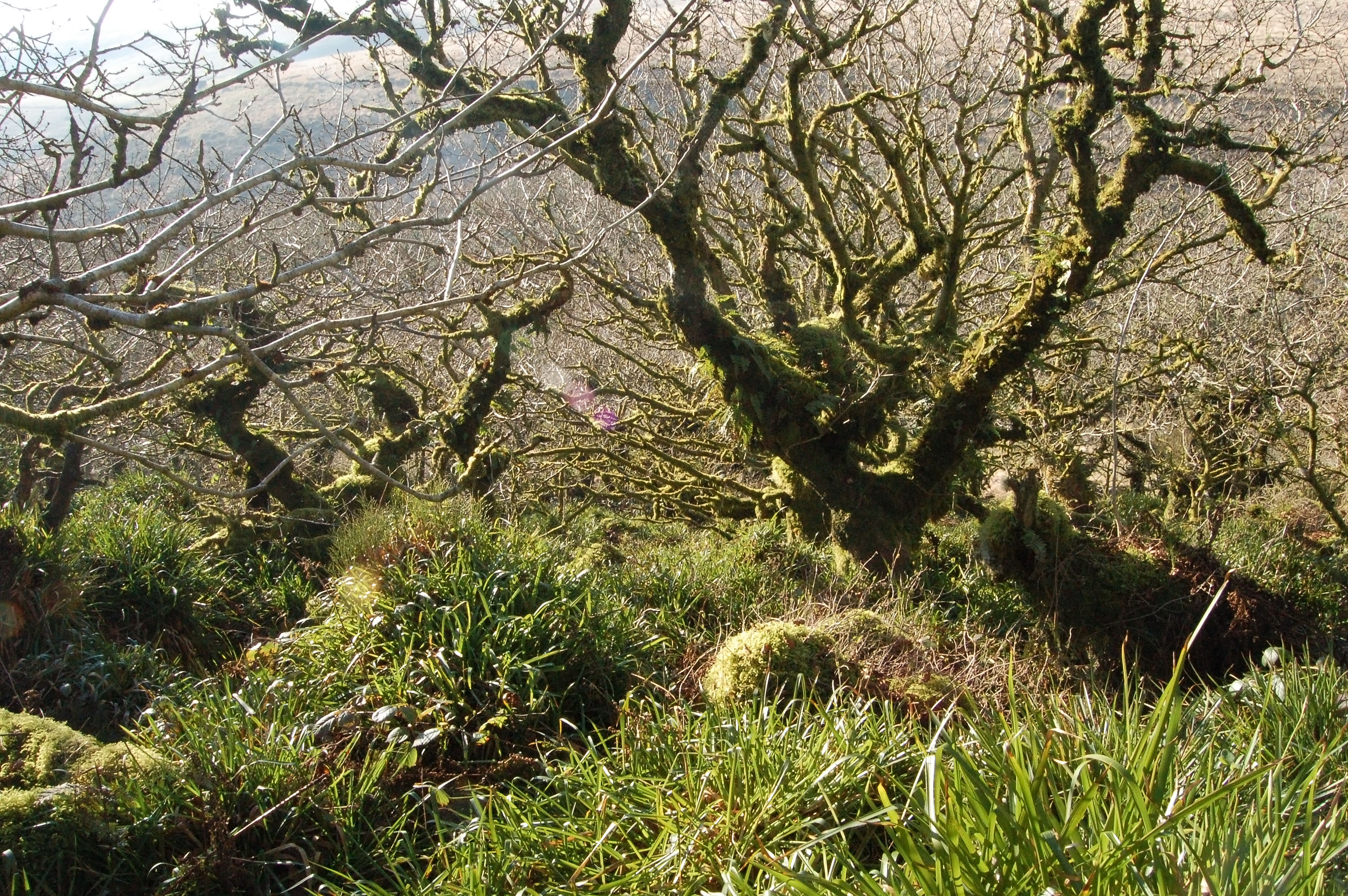 The stunted Pedunculate Oaks (Quercus robur) inside Wistman's Wood during mid February.